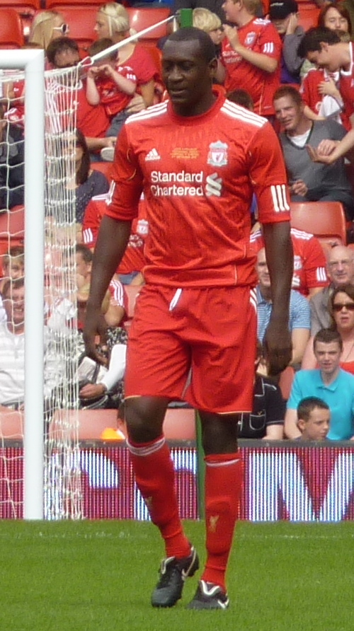 English football player Emile Heskey during Jamie Carragher Testimonial Match.